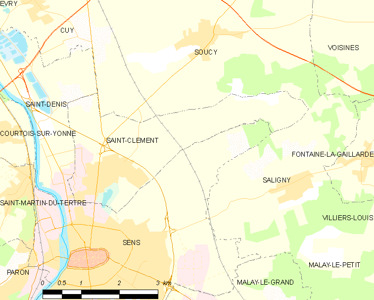 Map of French municipality Saint-Clément